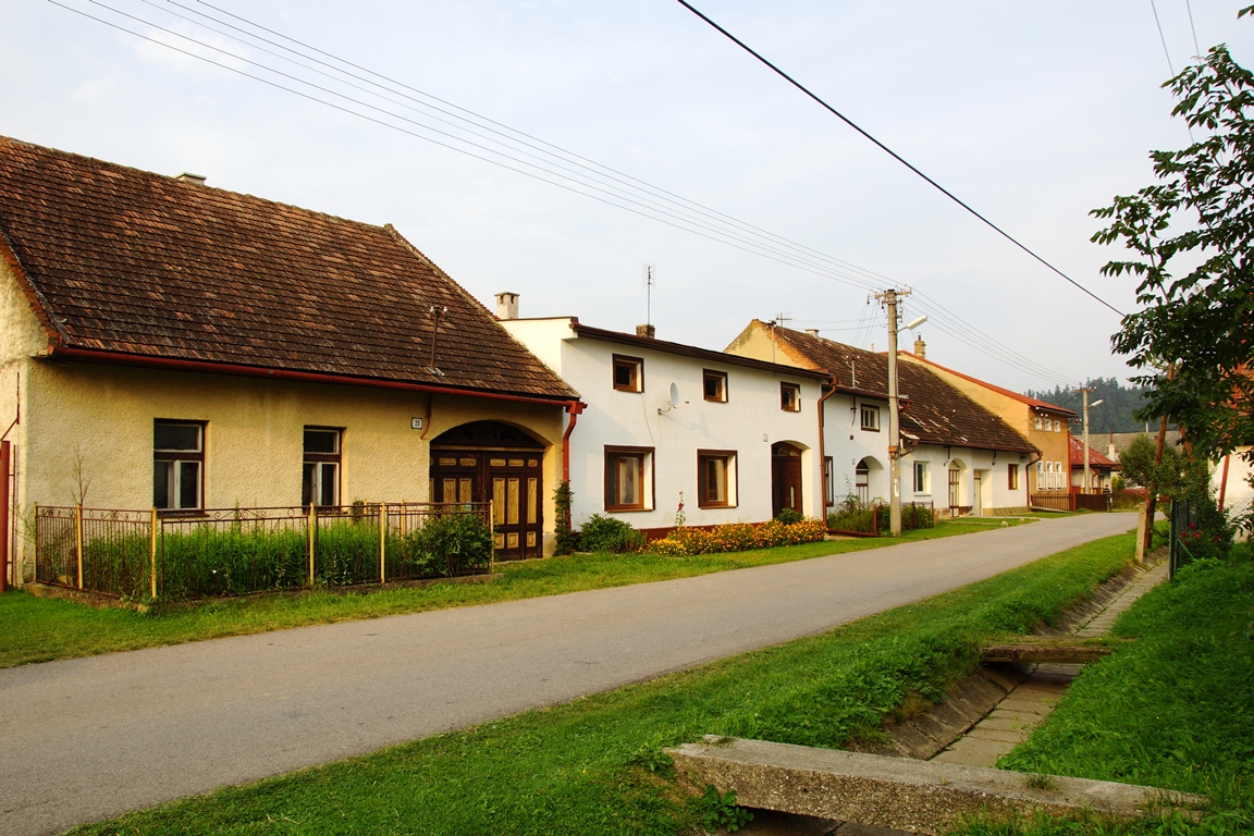 A street at Bušovce